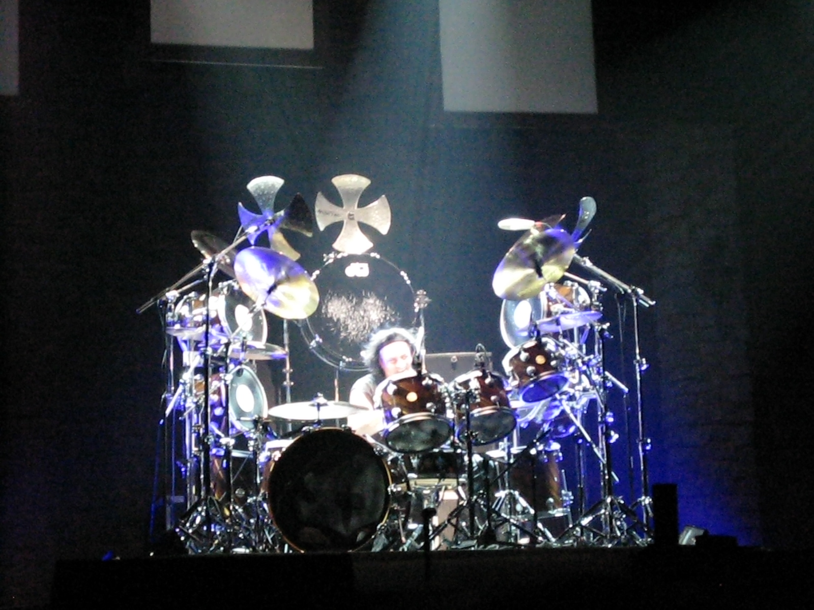 Vinnie Appice, Heaven And Hell at the NEC, 2007-11-13.